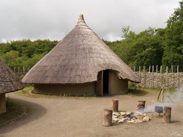 Craggaunowen Project, The Crannog This is a reconstruction of a lake dwelling of a type which was found in Ireland during the Iron Age and early Christian periods.